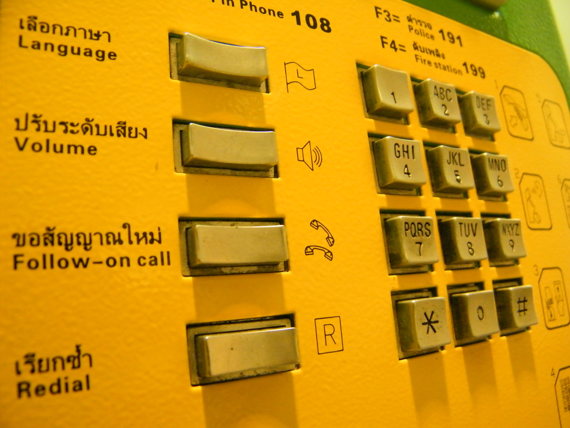 A close-up photograph of dialing panel on TOT Corporation payphone, focusing on a symbol of Follow-on call button (a.k.a. flash button)- which is a button for starting a new call using remaining credits from already-inserted coins.